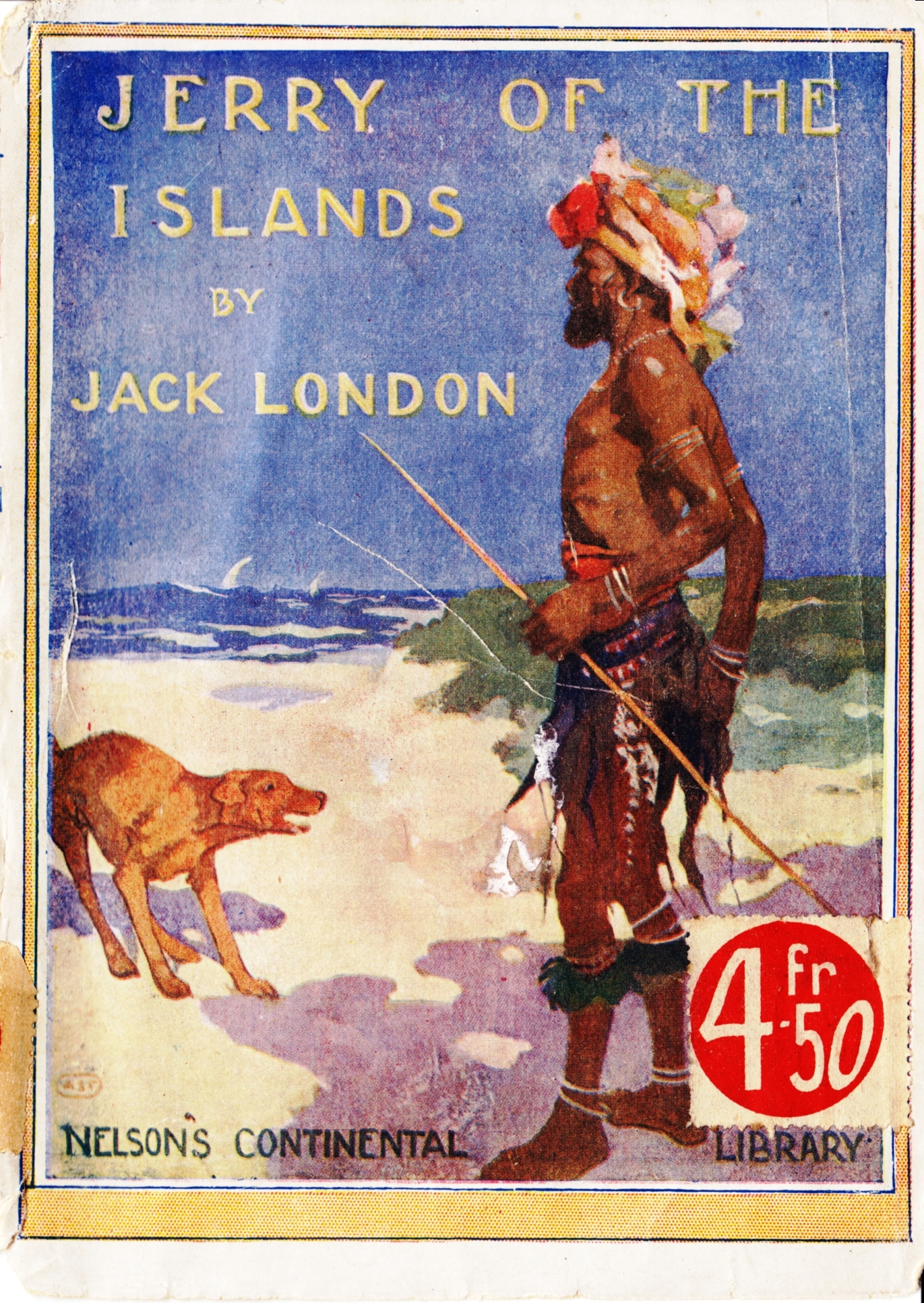 Book cover of Jerry of the Islands